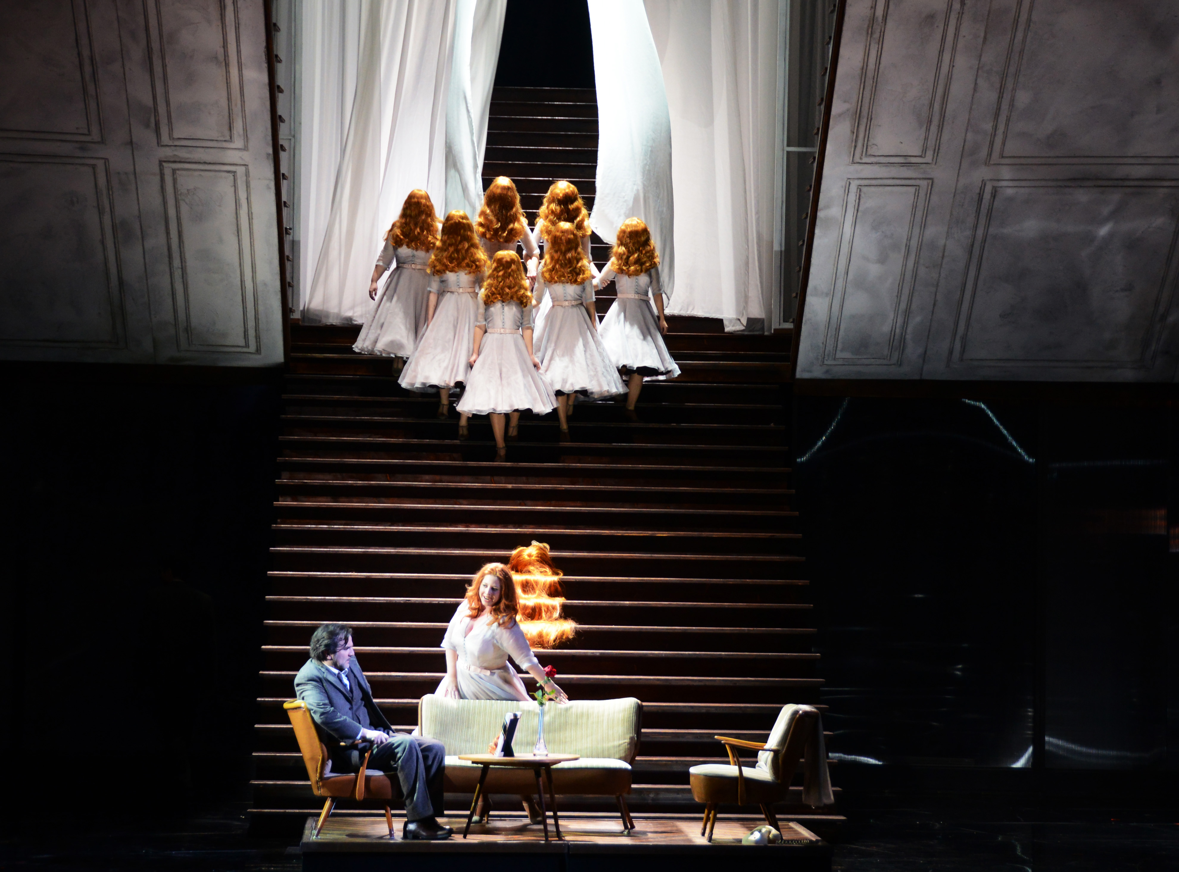 Graz Opera House